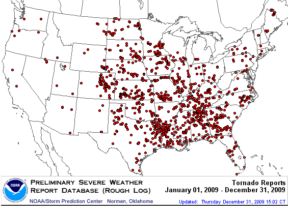 Preliminary map of all tornado reports received by the Storm Prediction Center in 2009.